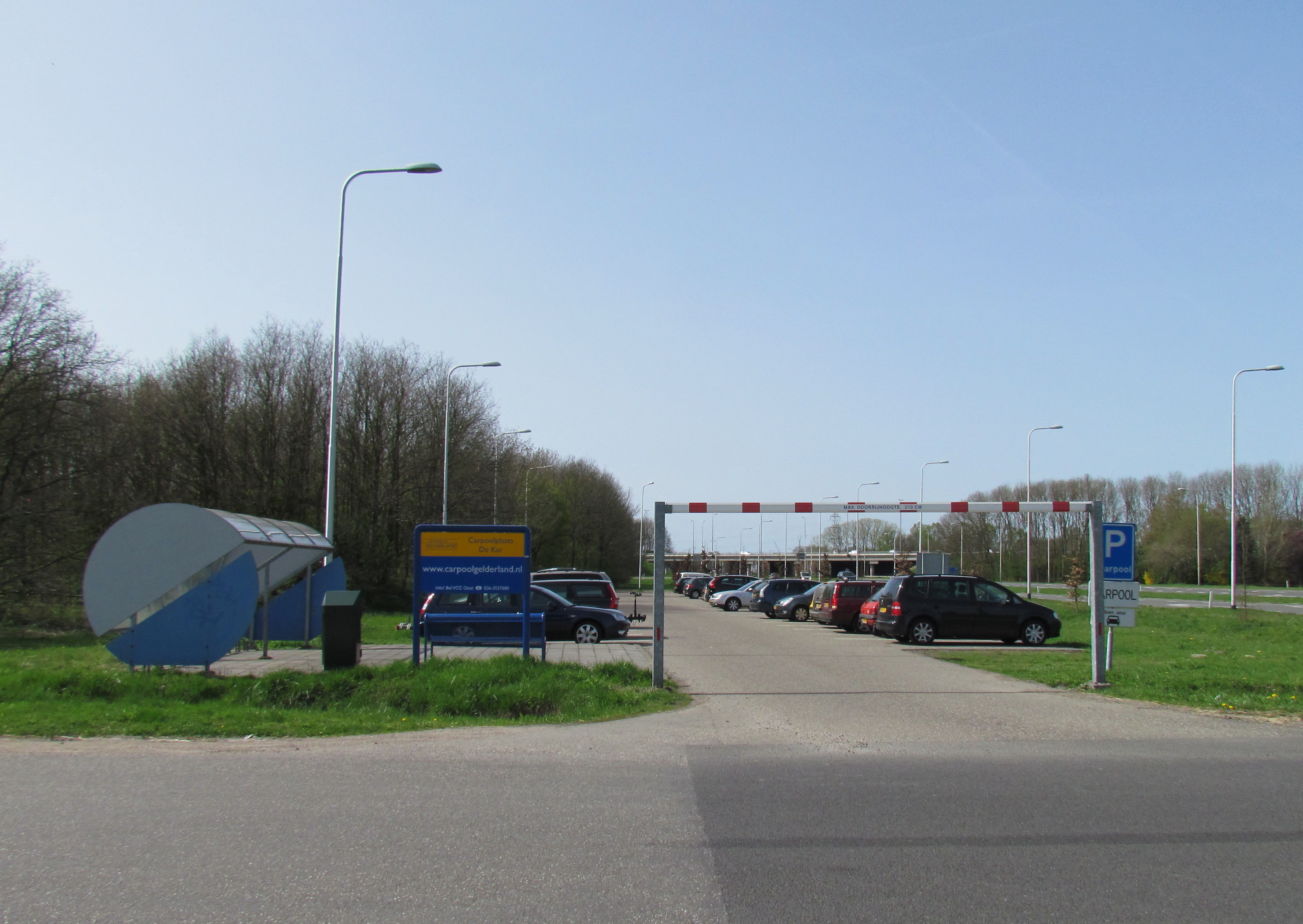 Carpool pick-up point 'De Kar' near Apeldoorn